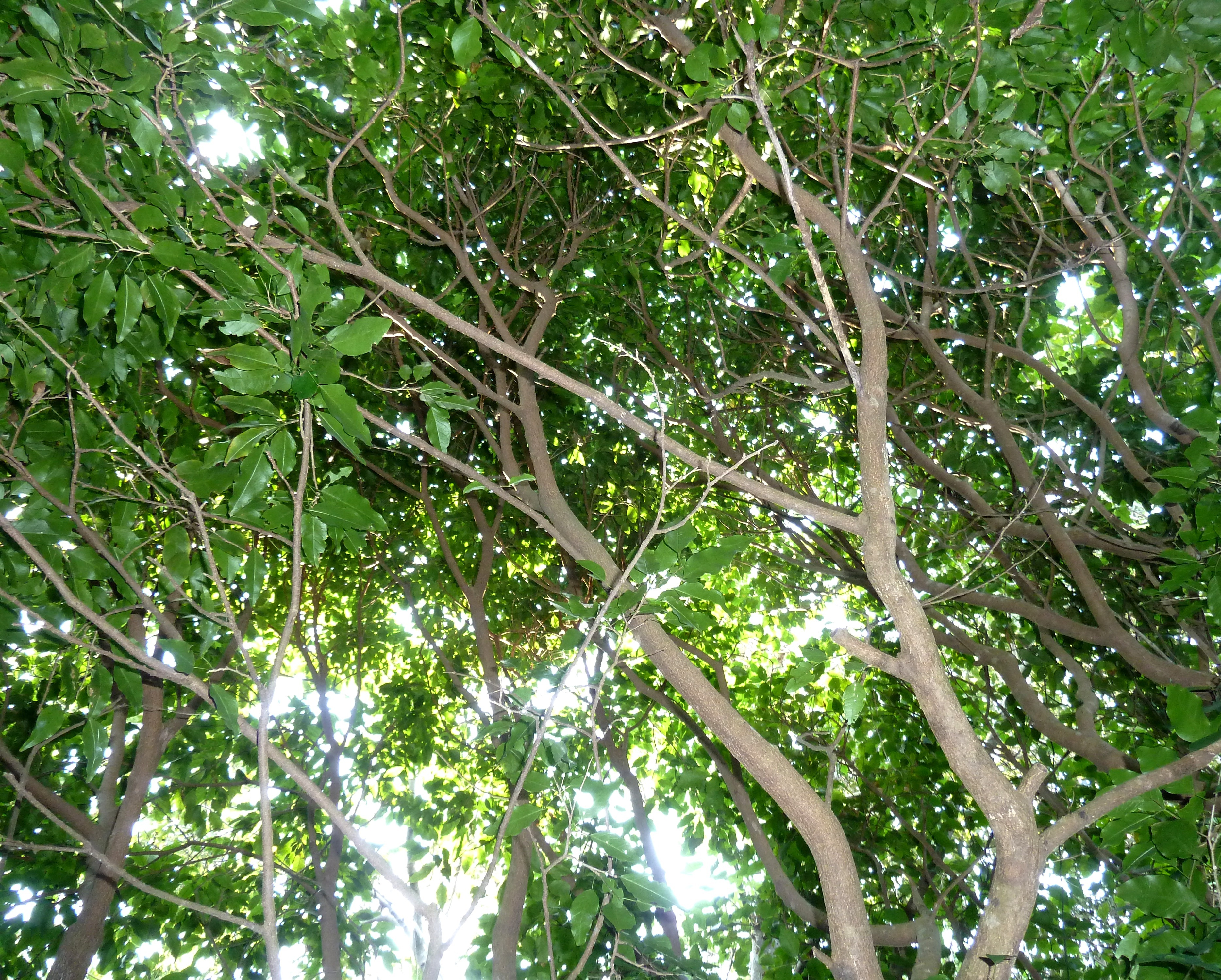 Leaf canopy of a Natal camwood in the Umhlanga Lagoon Nature Reserve, KwaZulu-Natal